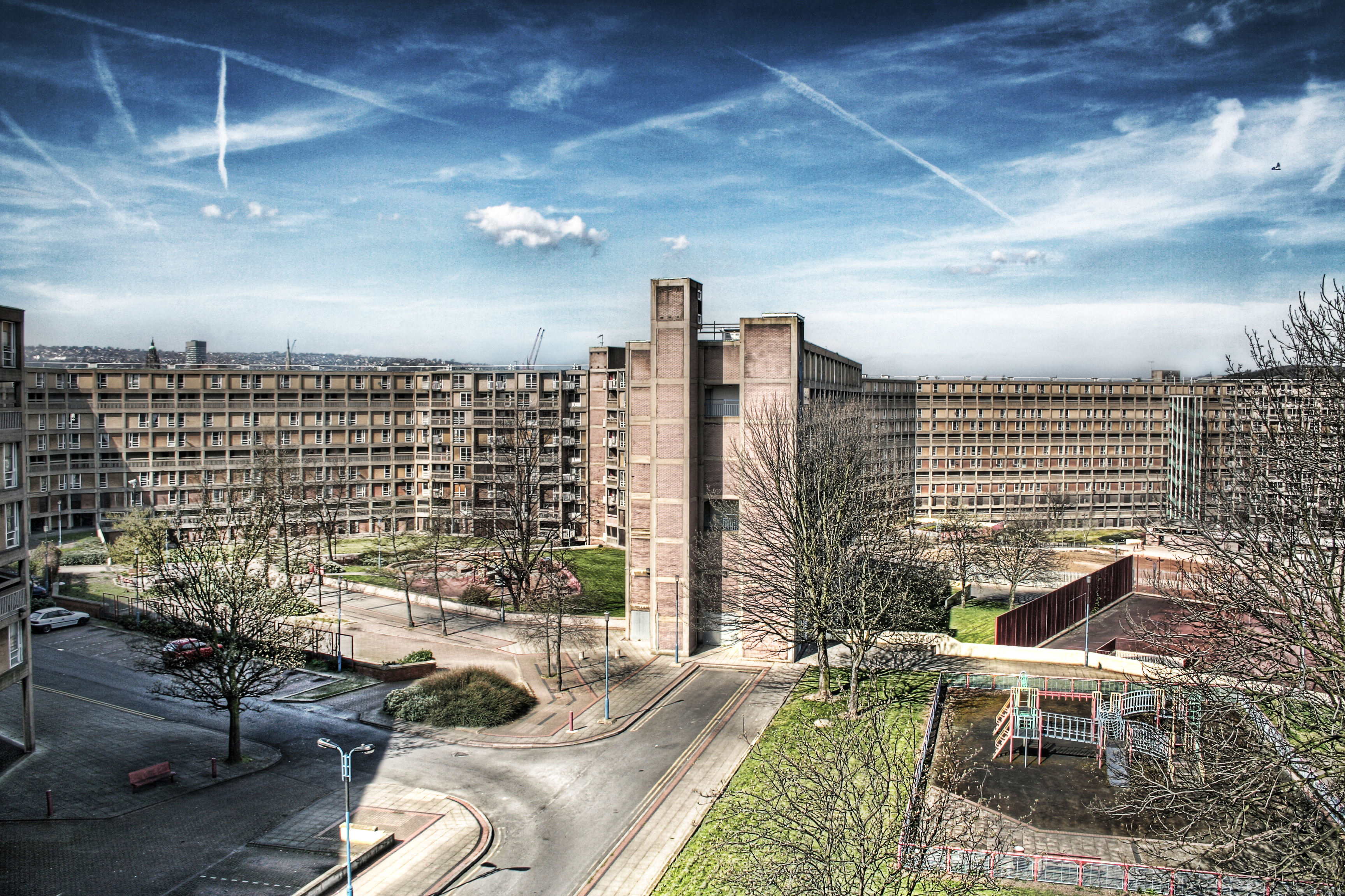 Park Hill, half-abandoned council housing estate, Sheffield, England